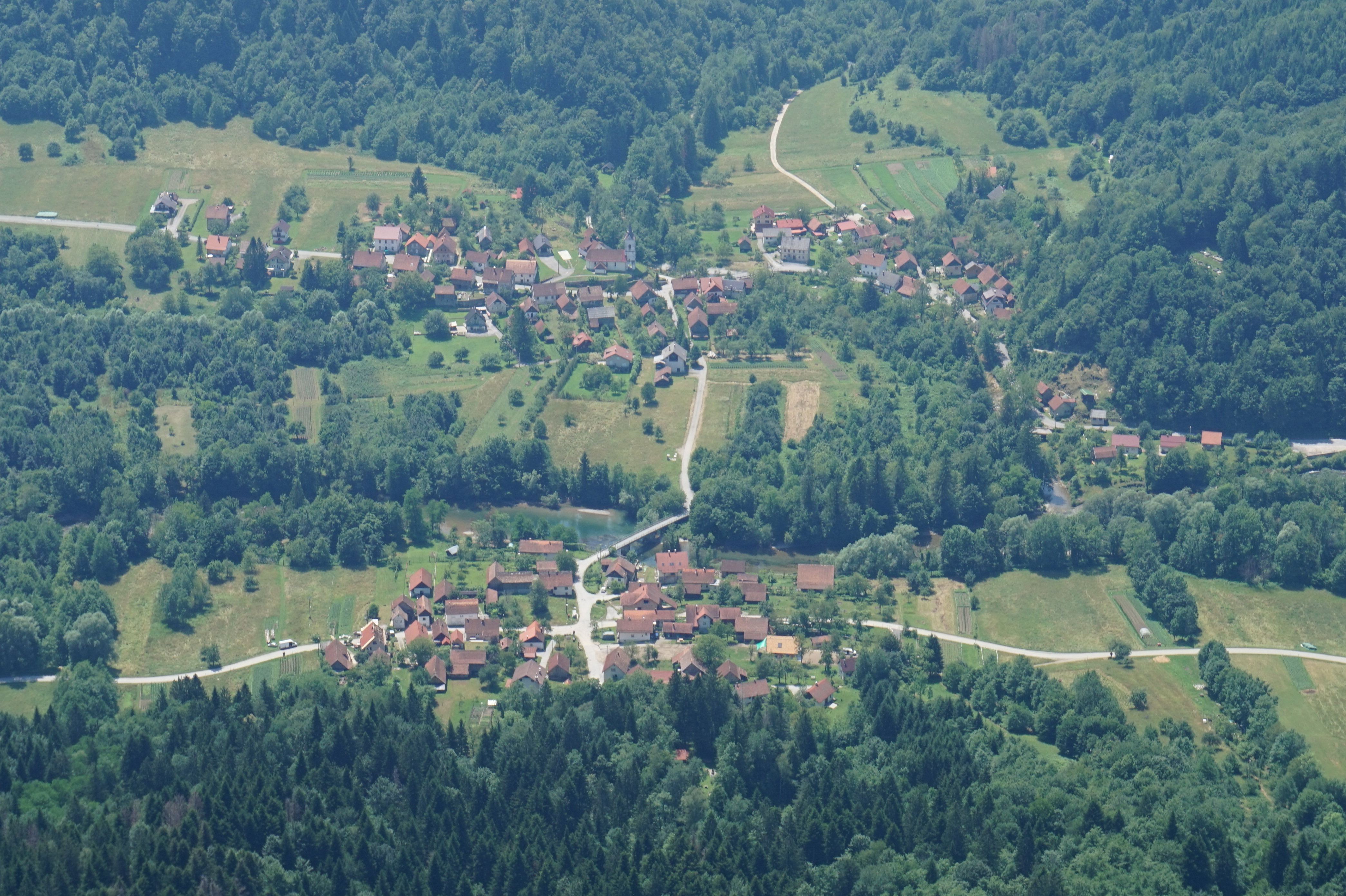 View of the Slovenian and Croatian villages of Kuželj from the Kuželj Rock